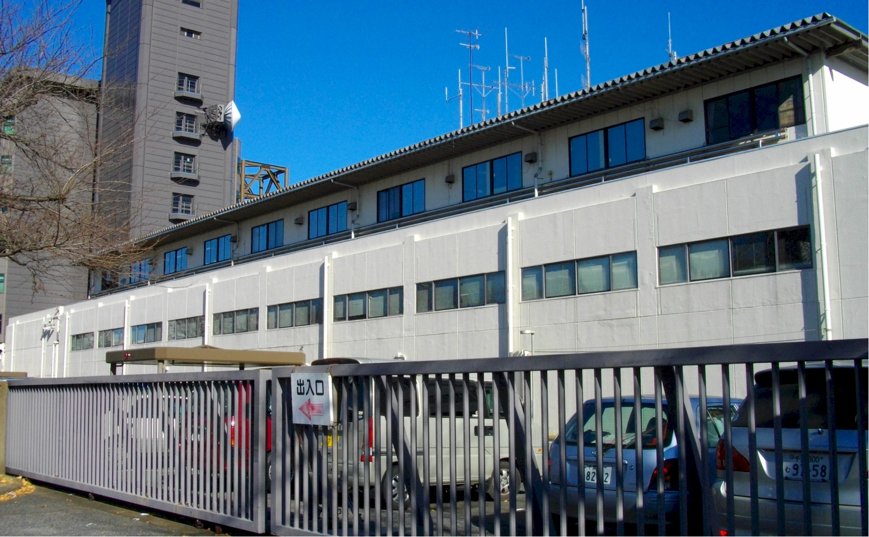 Narita International Airport Police Station